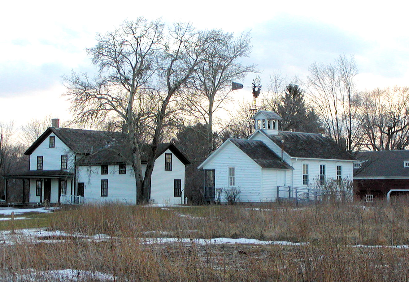 Heman Gibbs Farmstead at the Gibbs Museum of Pioneer & Dakotah Life, 2097 Larpentuer Avenue, Saint Paul